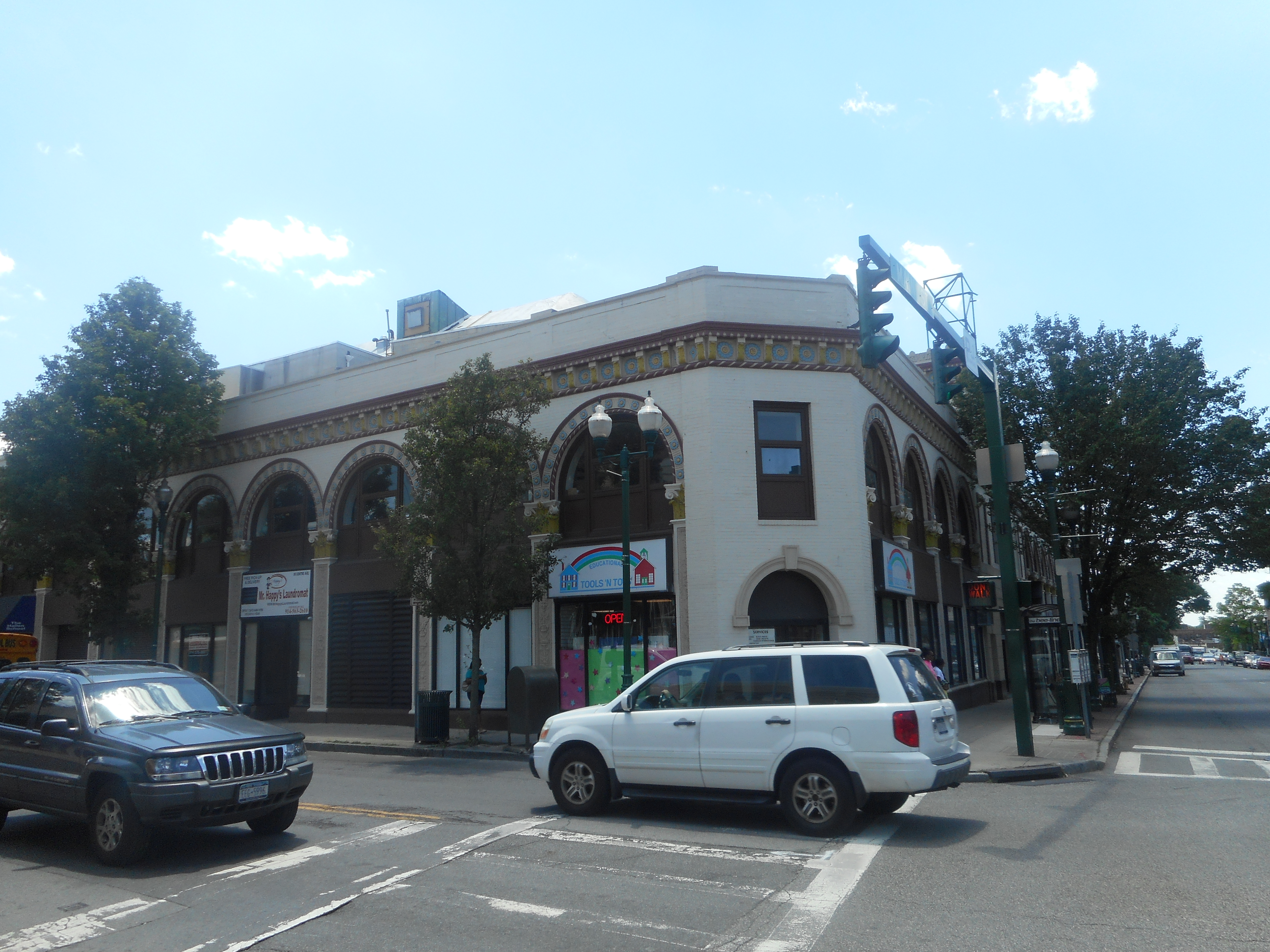 Scene related to the former Proctor's RKO Theater in New Rochelle, New York, a local historic landmark. Further details to come later.